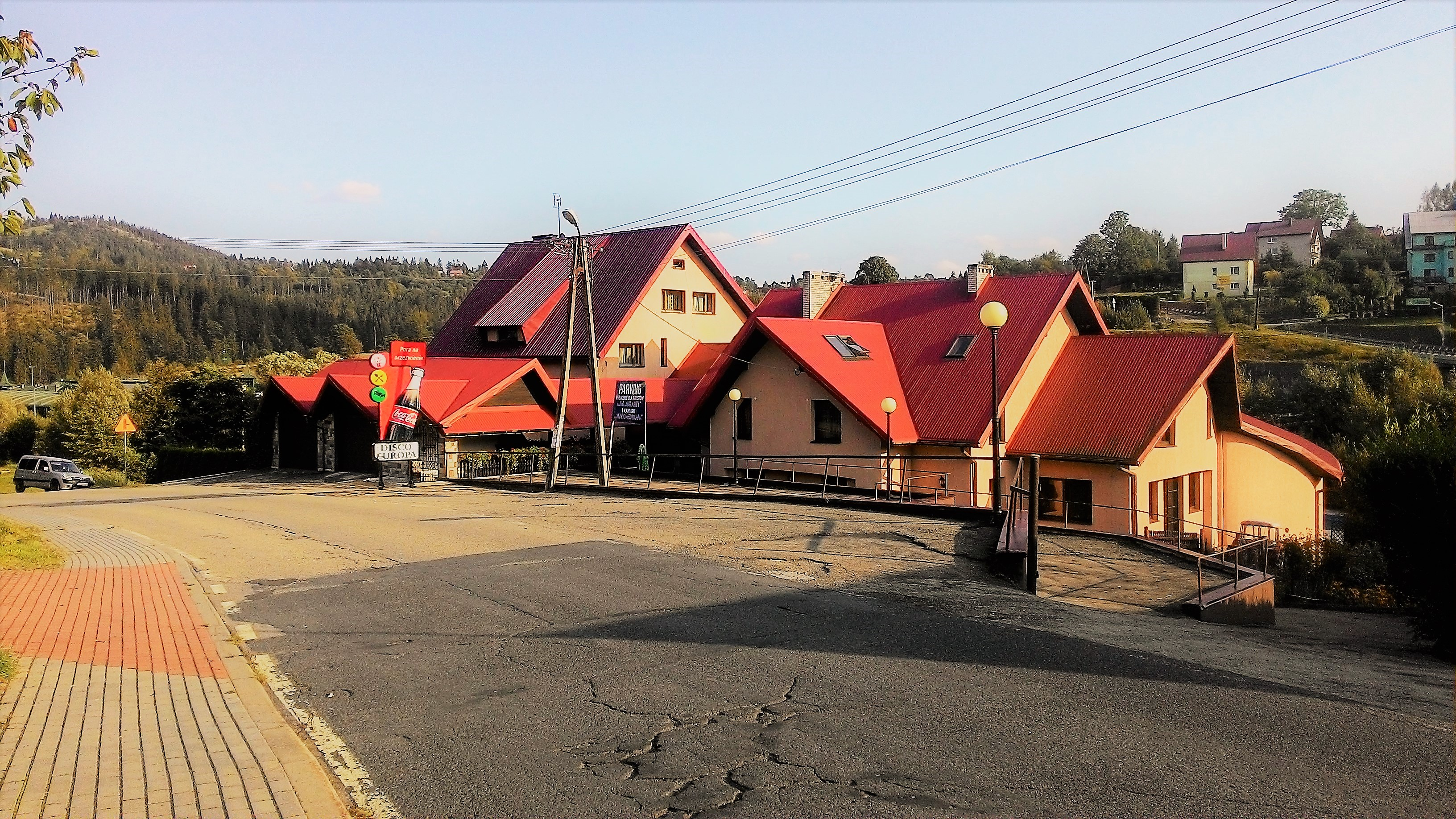 Tourist house Granit in Zwardoń on Polish-Slovak border.